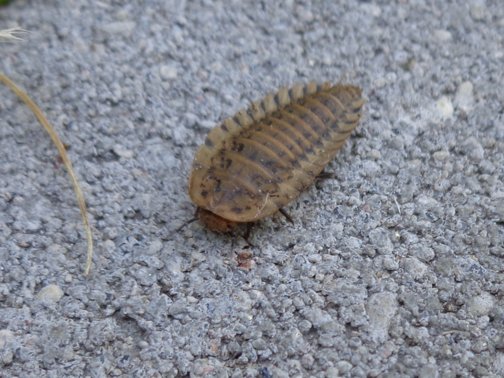 Silpha obscura. Found in Riga town, Latvia